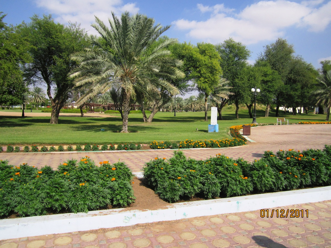 Hili Achaelogical Park, Al-Ain